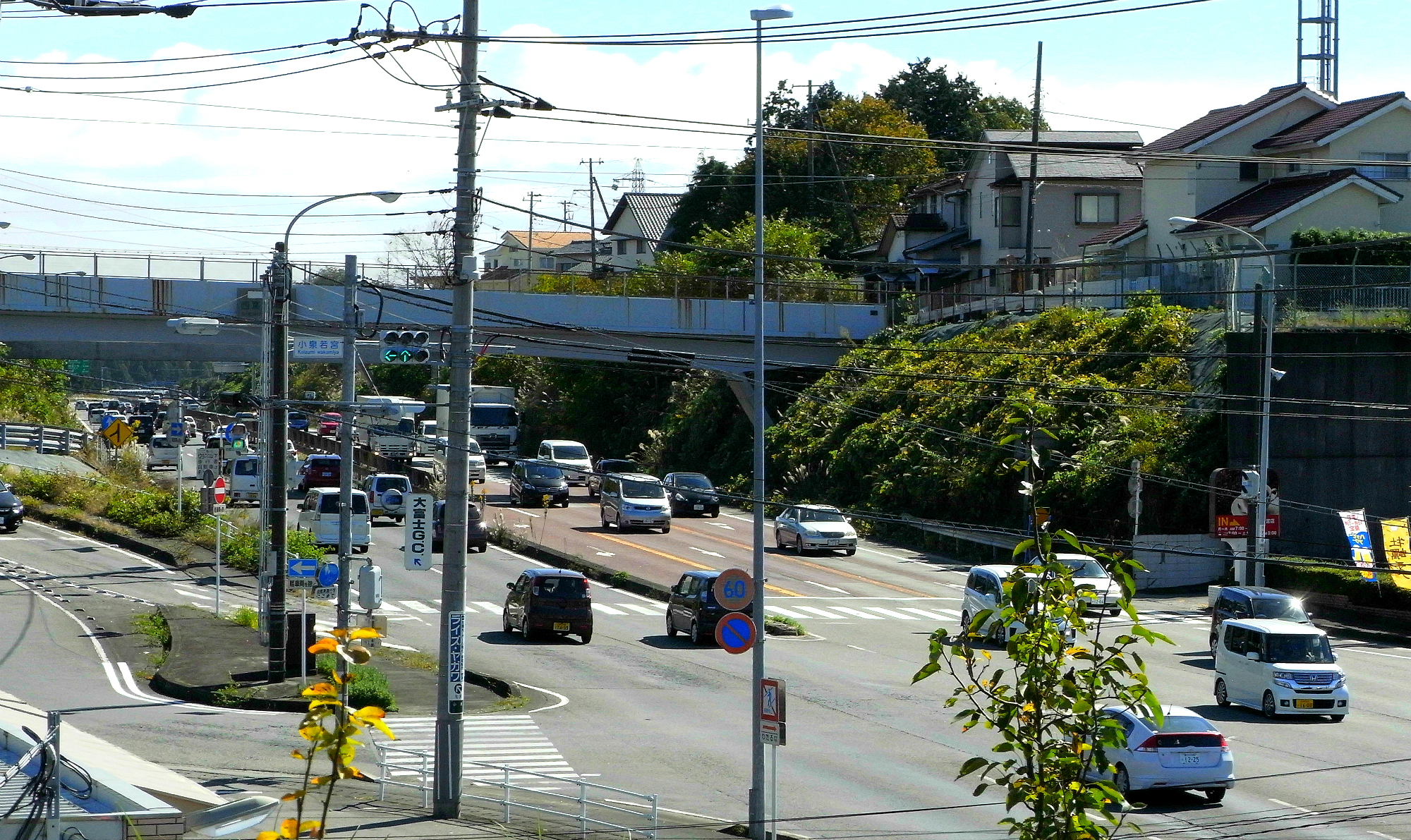 Nishifuji Road Koizumi Interchange Entrance and Exit